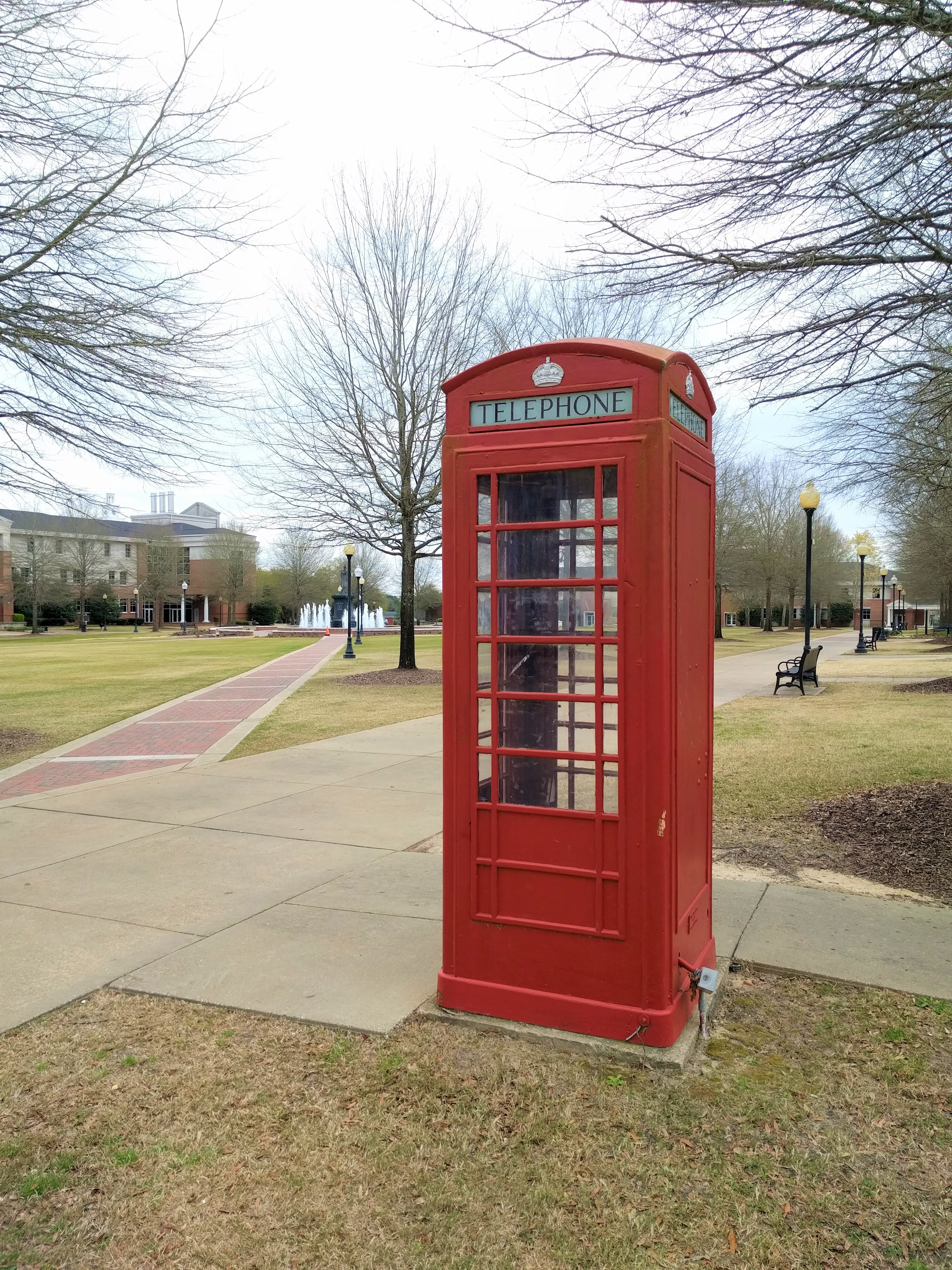 The old telephone booth on the Quad at Troy University.